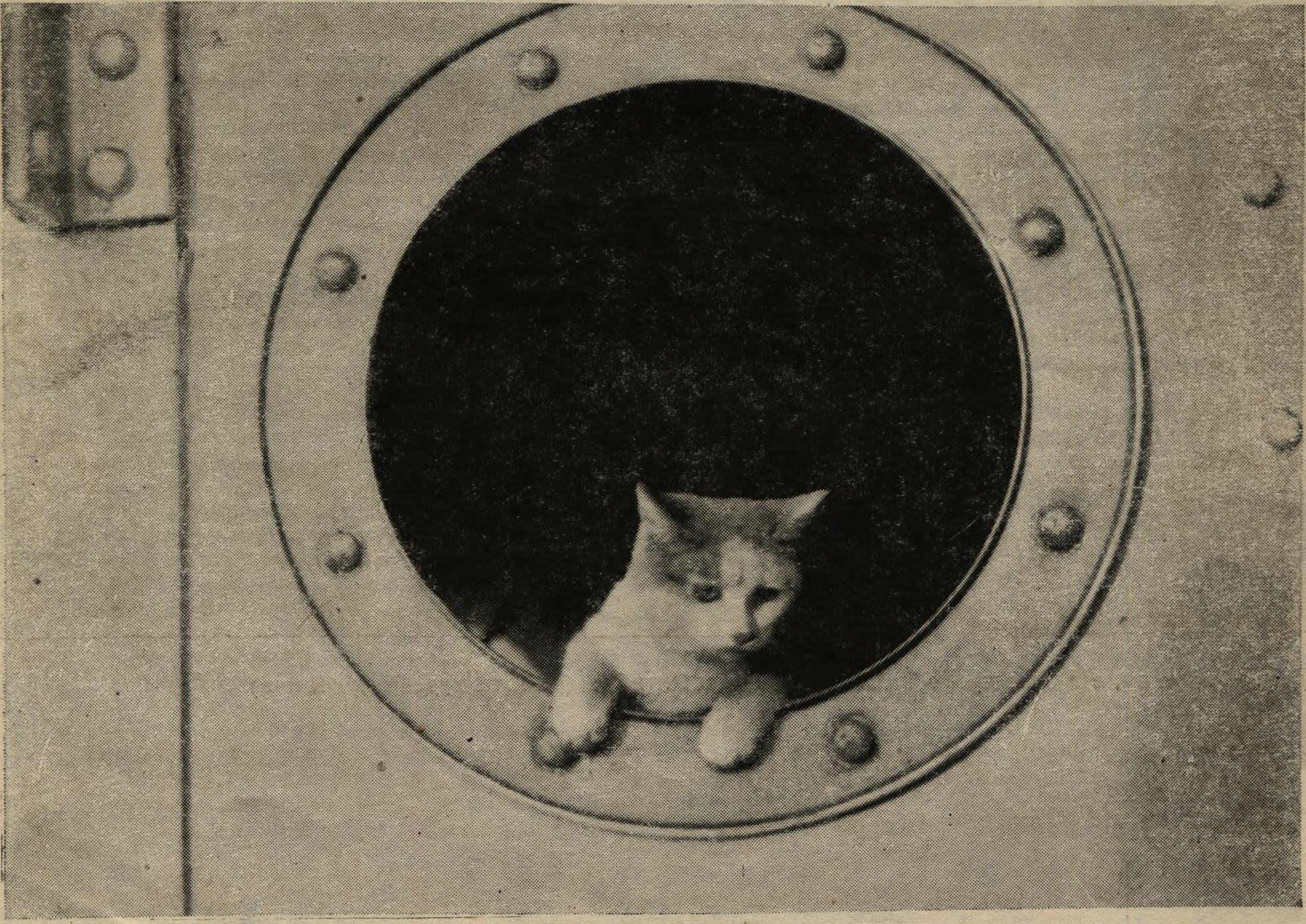 Kitty Bims - a member of the expedition of the icebreaker "Sibiryakov". 1932. Photo by P. Novitsky